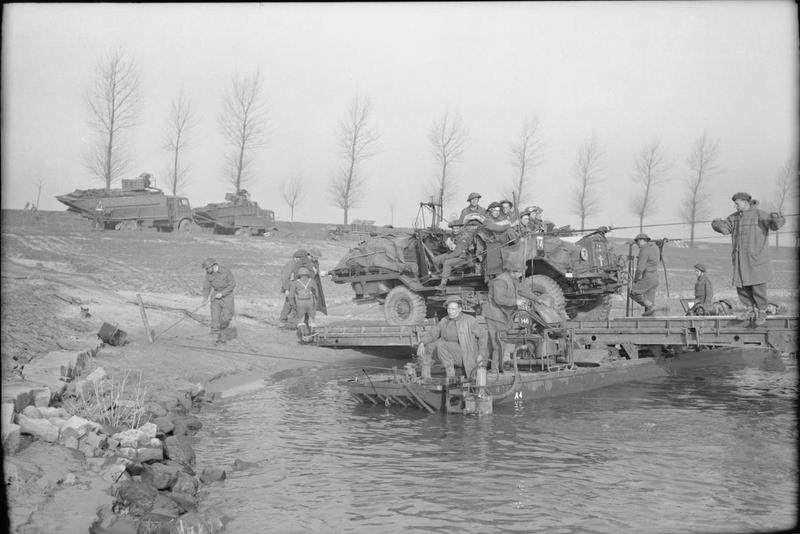 The British Army in North-west Europe 1944-45 A lorry-mounted 40mm Bofors anti-aircraft gun of 15th (Scottish) Division crossing the Rhine near Xanten, 24 March 1945.